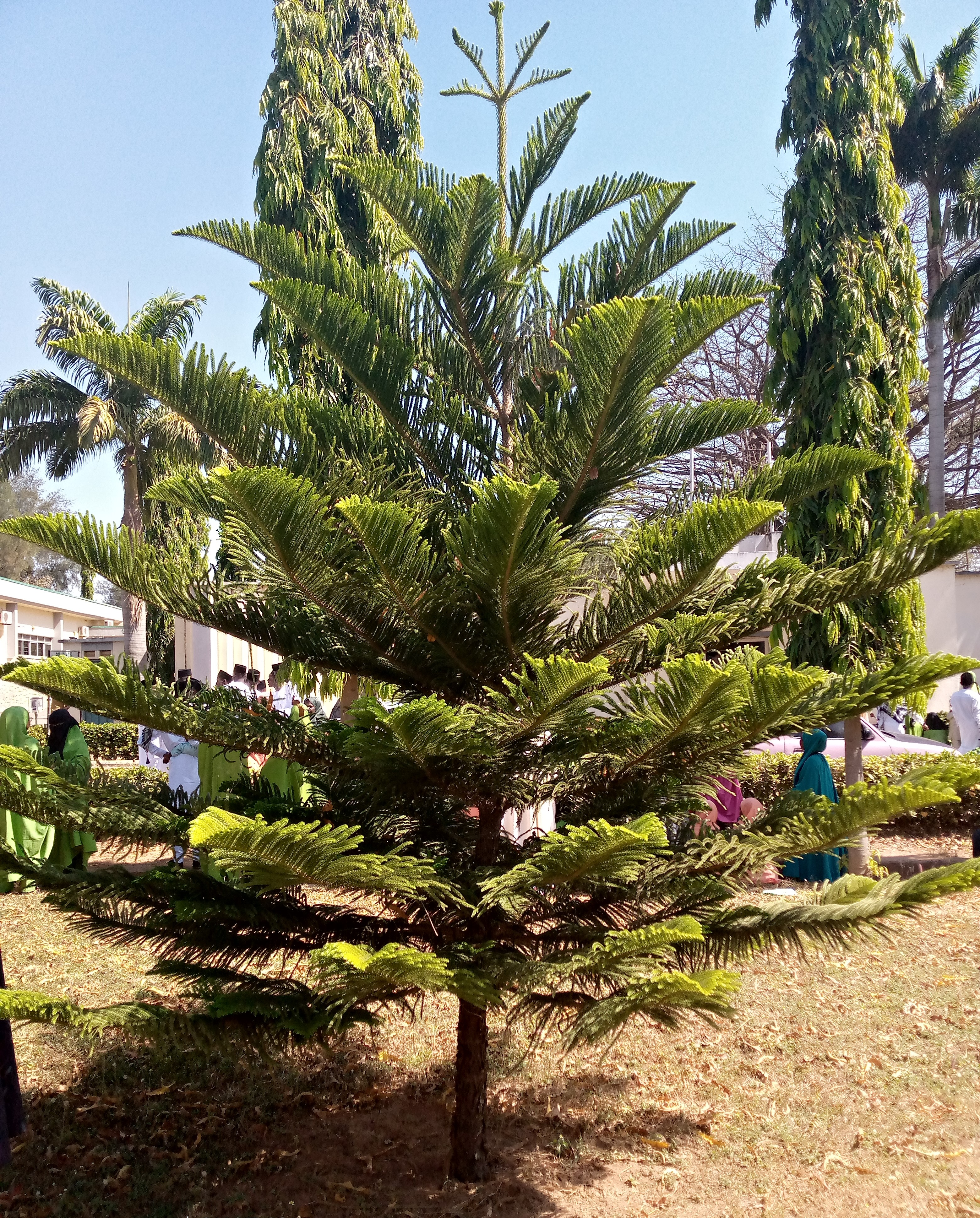 A tree